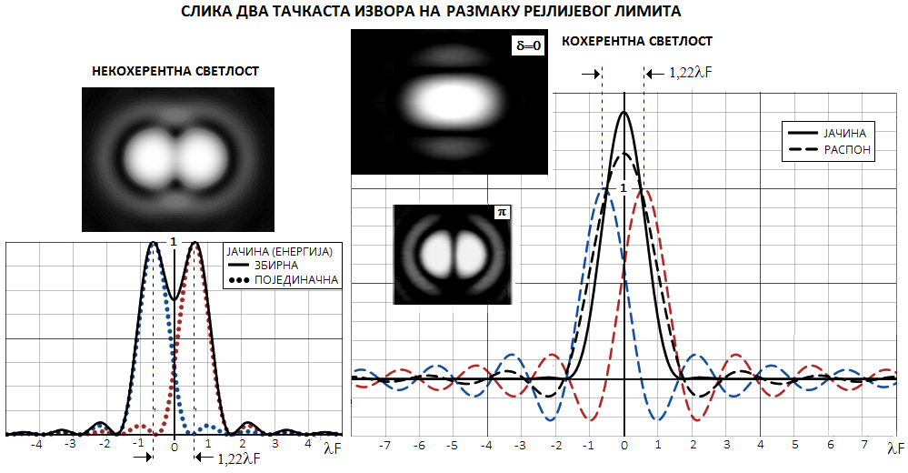 КОХЕРЕНТНО И НЕКОХЕРЕНТНО ЗБИРАЊЕ ТАЛАСА